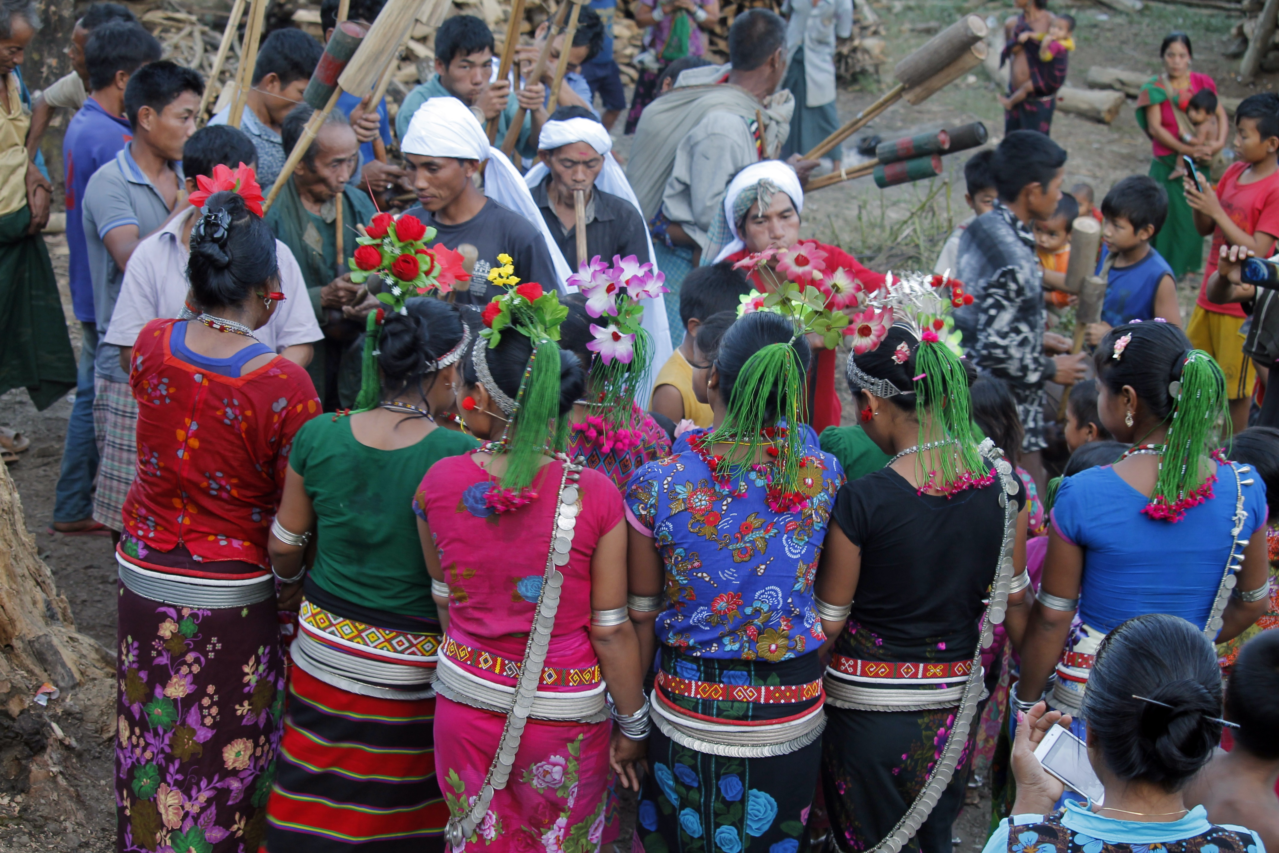 Women dancing with men playing the ploong (bamboo flute) during Chesotpoi celebrations.